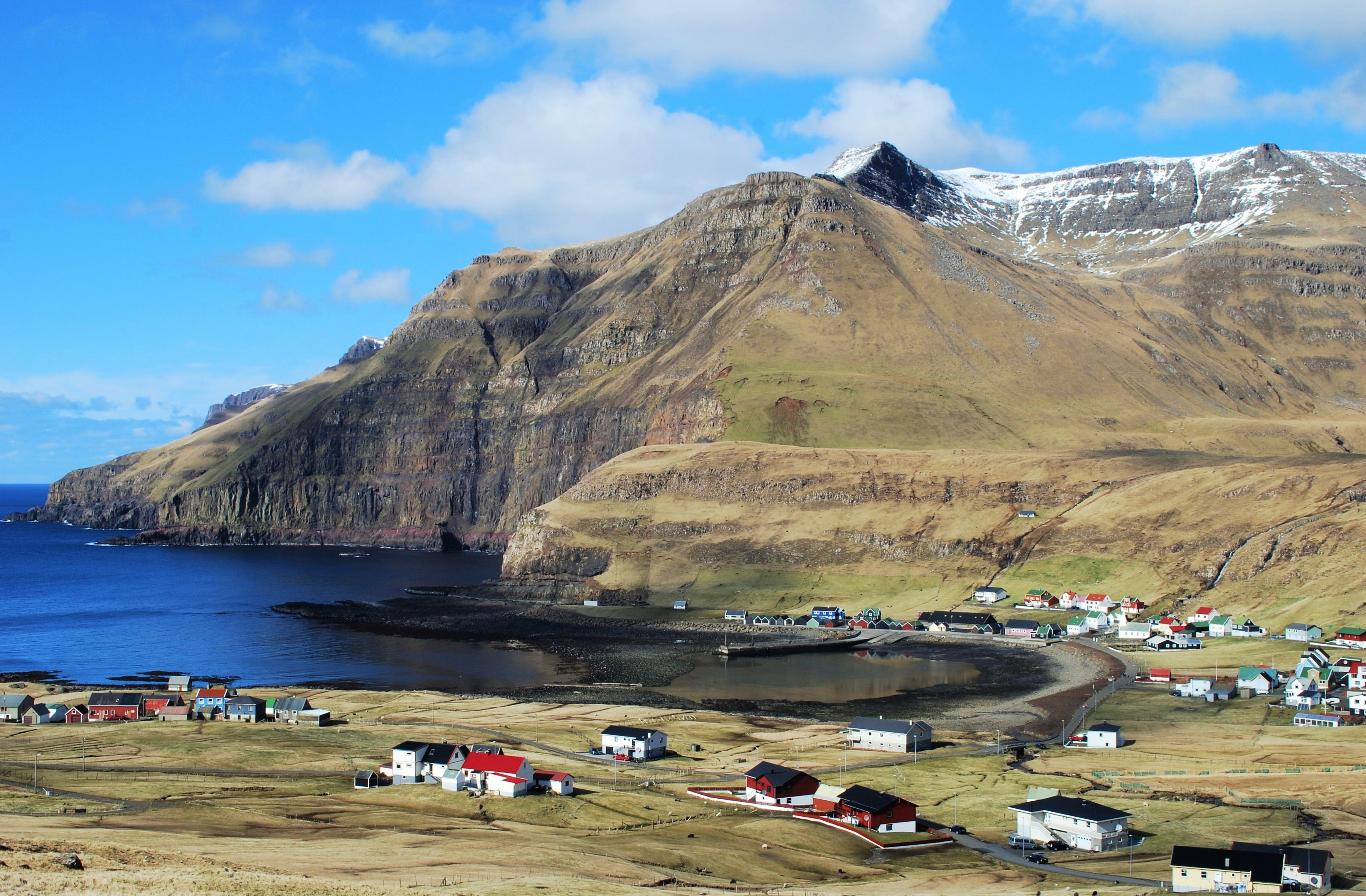 Fámjin is a village, located in the middle of the coastline on the western side of Suðuroy, the southernmost island in Faroe Islands.